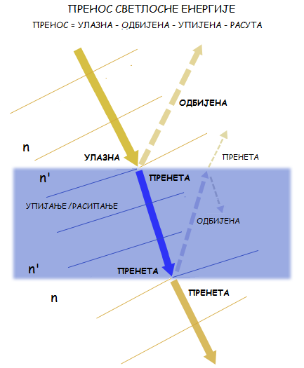 ПРЕНОС СВЕТЛОСТИ